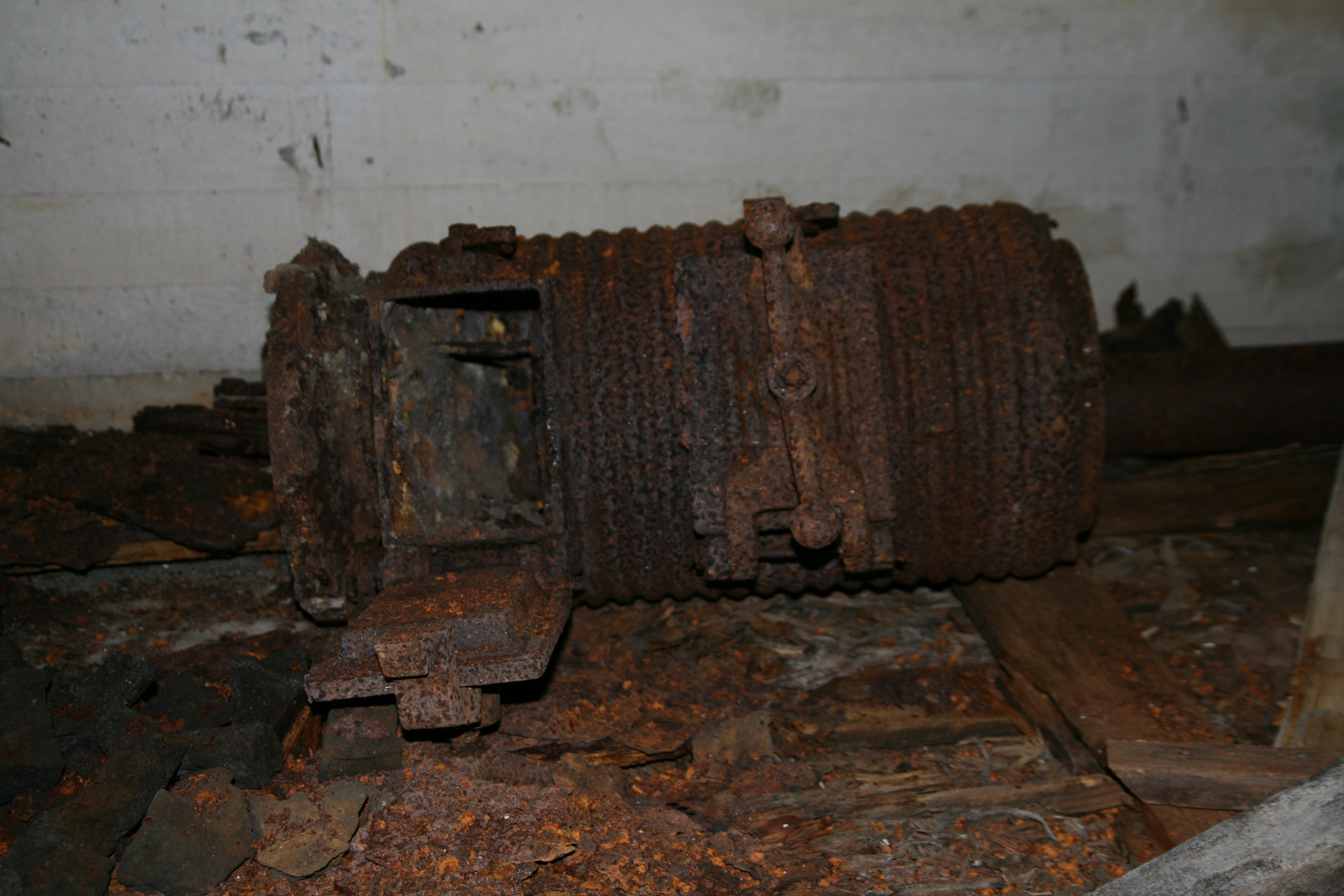 A German oven used in bunkers during WWII, photo taken at Fjell festning, Hordaland, Norway.